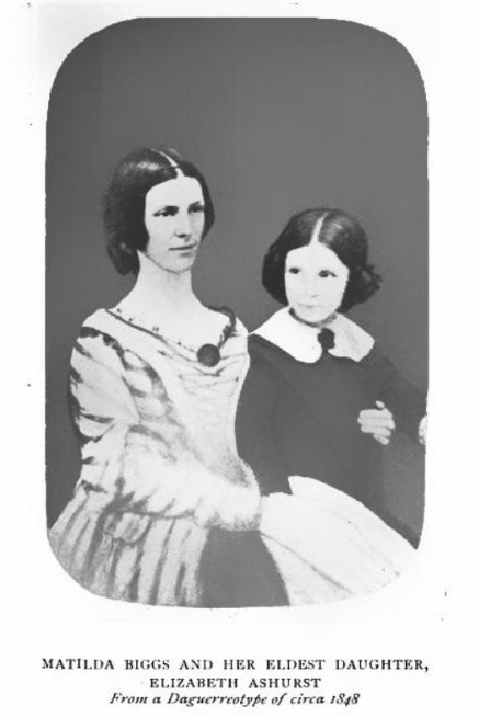 Matilda Biggs and her eldest daughter, Elizabeth Ashurst. From a Daguerrotype of circa 1848